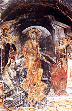 Christ Church in Veria Resurrection Fresco on the Southern Wall by Georgios Kalliergis, 1315